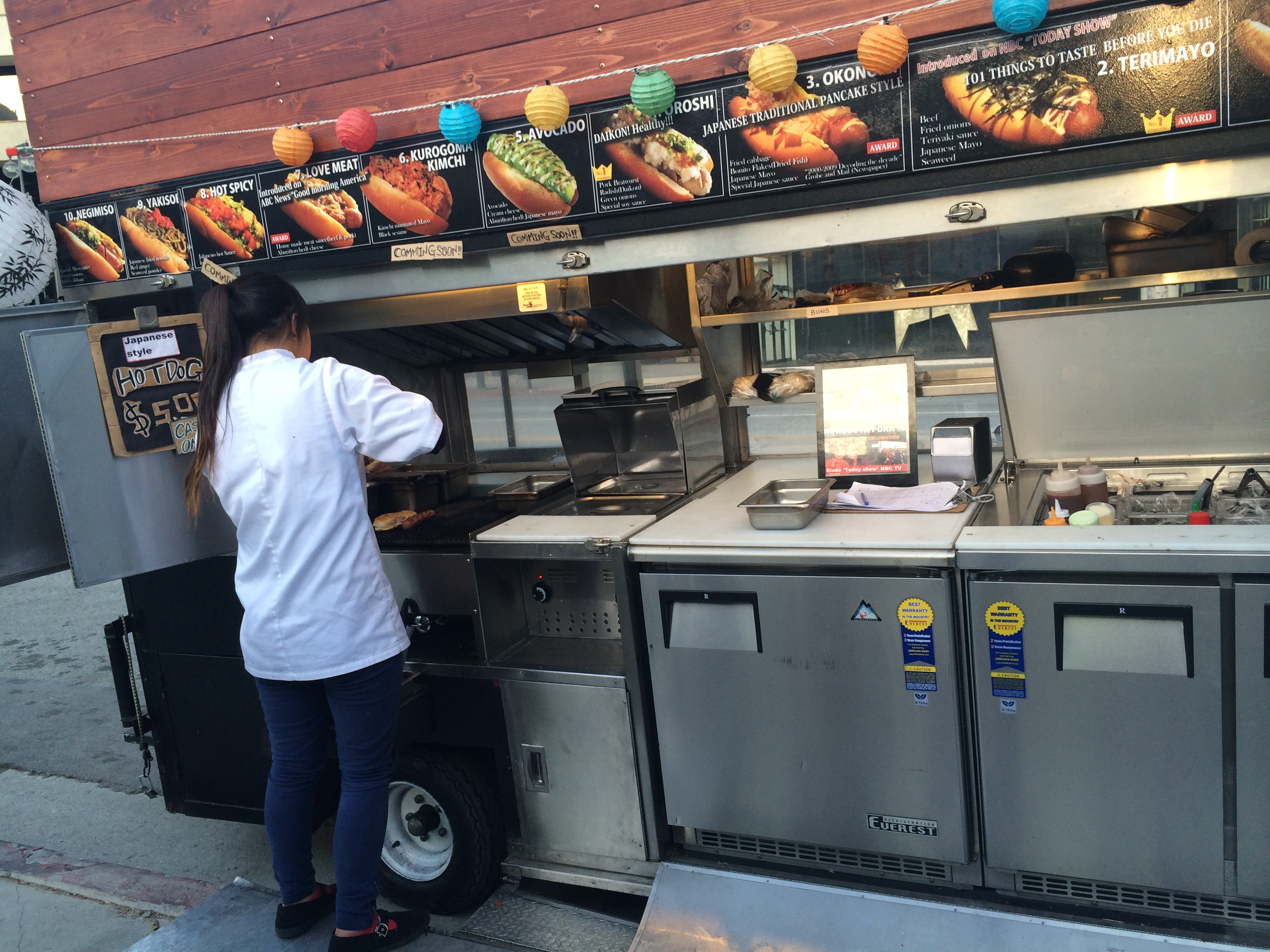 So I was on my way to Little Tokyo for a meeting and hadn't had dinner yet. I REALLY wanted a hot dog. I arrive to my meeting point and find the Vancouver-based Japadog across the street from my building! It was fate. Turned out they had only been in town so far for a couple of weeks. The yakisoba dog was legit & a total lifesaver!